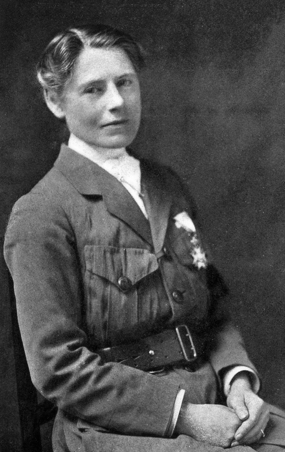 Photographic portrait of Honorable Evelina Haverfield. Seated, 3/4 view in uniform